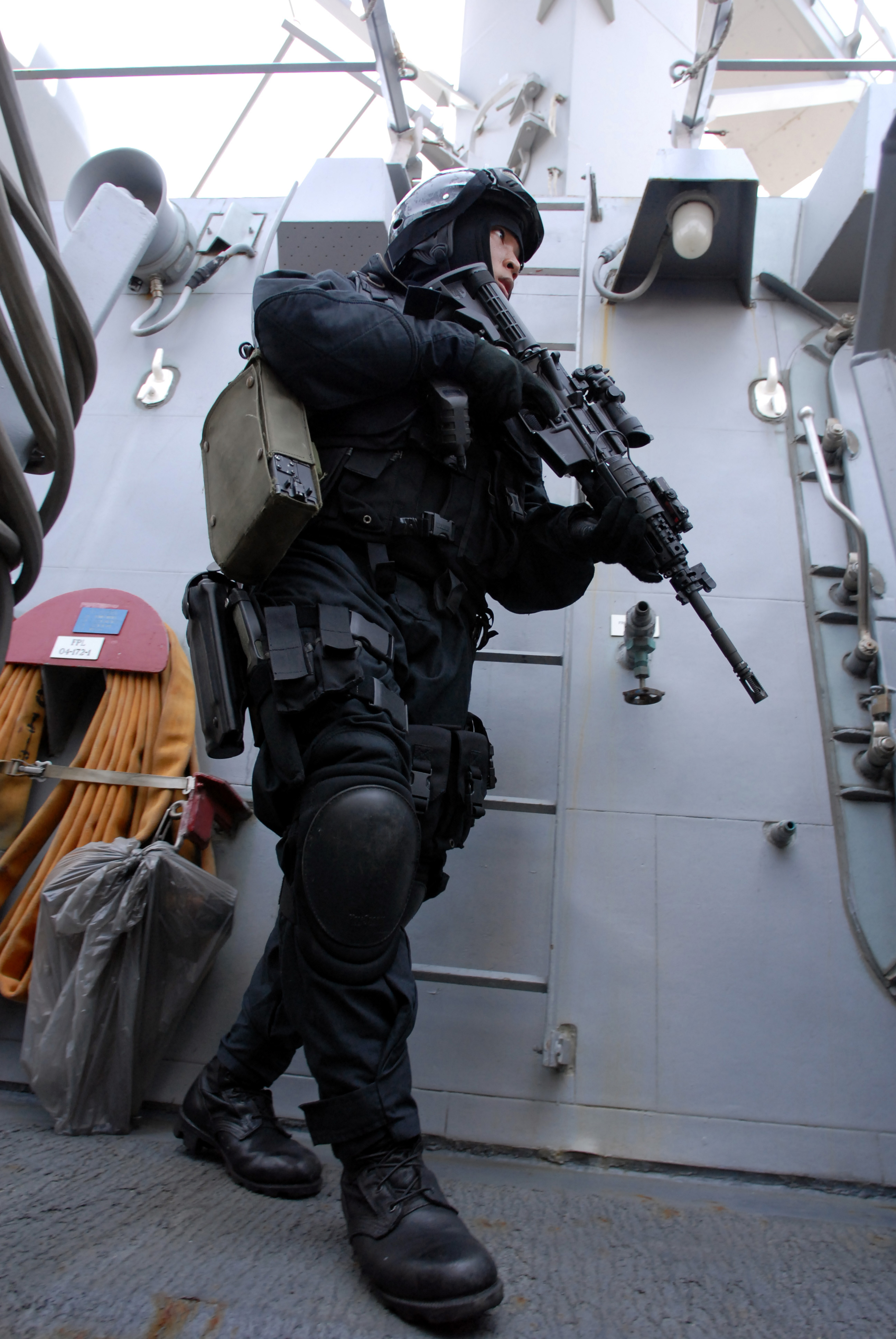 PACIFIC OCEAN (Aug. 18, 2008) A member of the Brunei Special Forces rushes towards the pilot house of the Arleigh Burke-class guided-missile destroyer USS Howard (DDG 83) during a visit, board, search and seizure exercise. Howard, along with the Brunei Air Force and Royal Brunei Navy, are participating in South East Asia Cooperation Against Terrorism exercises off the coast of Brunei. Howard and the Ronald Reagan Carrier Strike Group are on a scheduled deployment in the U.S. 7th Fleet area of responsibility operating in the western Pacific and Indian oceans. (U.S. Navy photo by Mass Communication Specialist 3rd Class Joshua Scott/Released)